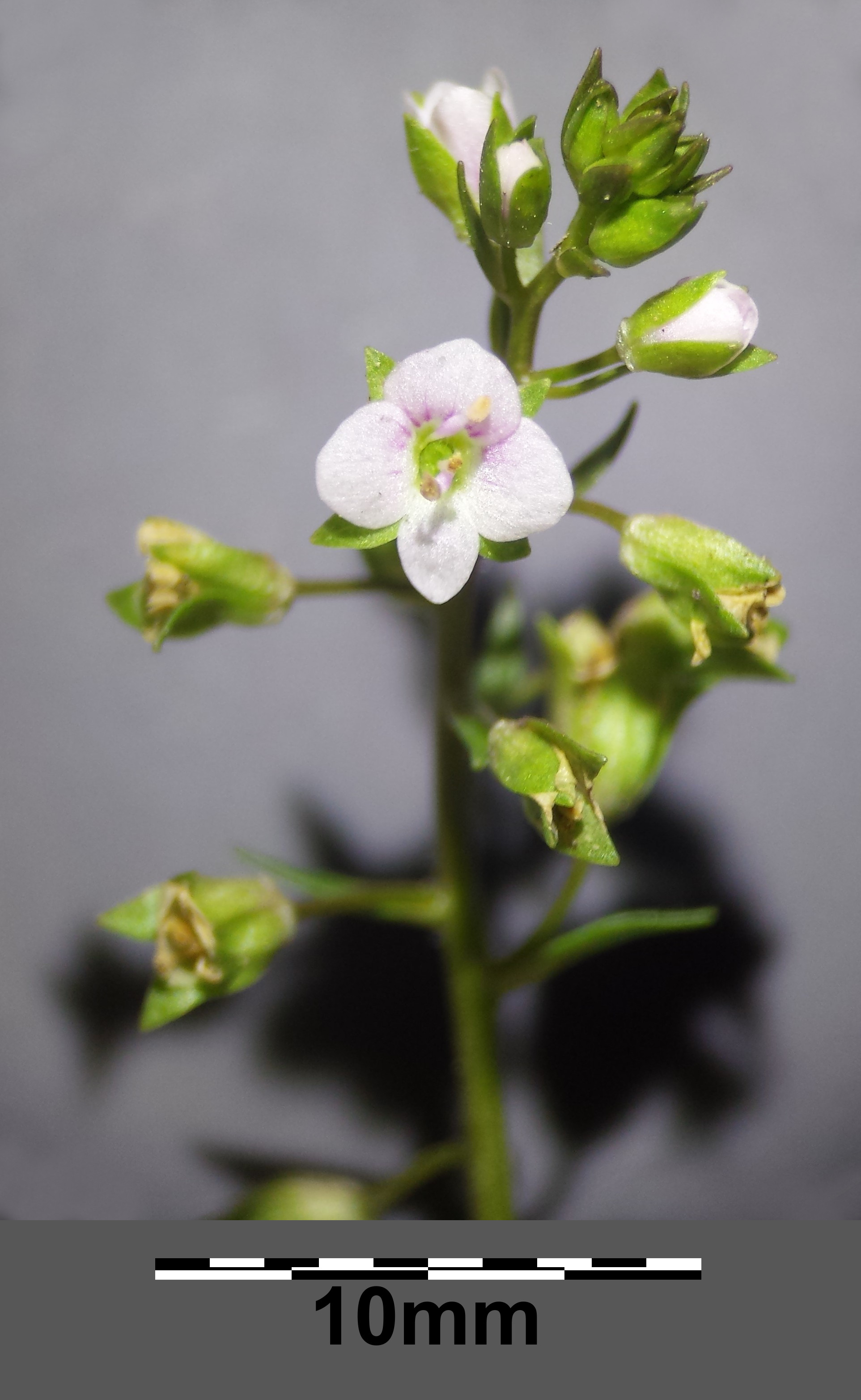 Inflorescence Taxonym: Veronica catenata ss Fischer et al. EfÖLS 2008 ISBN 978-3-85474-187-9 Location: pond near Goldenes Bründl, Rohrwald, district Korneuburg, Lower Austria - ca. 225 m a.s.l. Habitat: shore of a pond